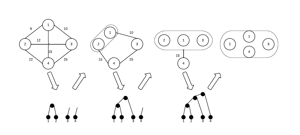 Construction of the clustering tree